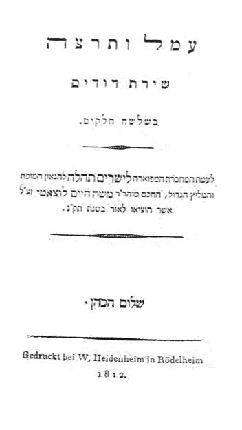 Shalom HaCohen's "Amal VeTirza", printed in Roedelheim 1812.